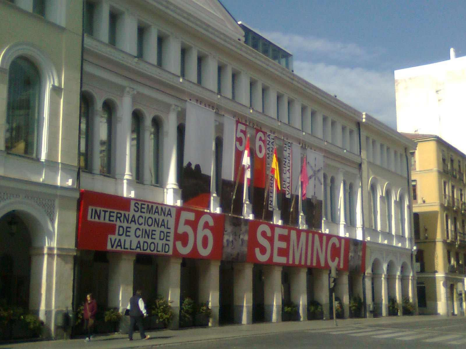 Outside of the Teatro Calderón in Valladolid (Spain) during the 56th Seminci (2011)